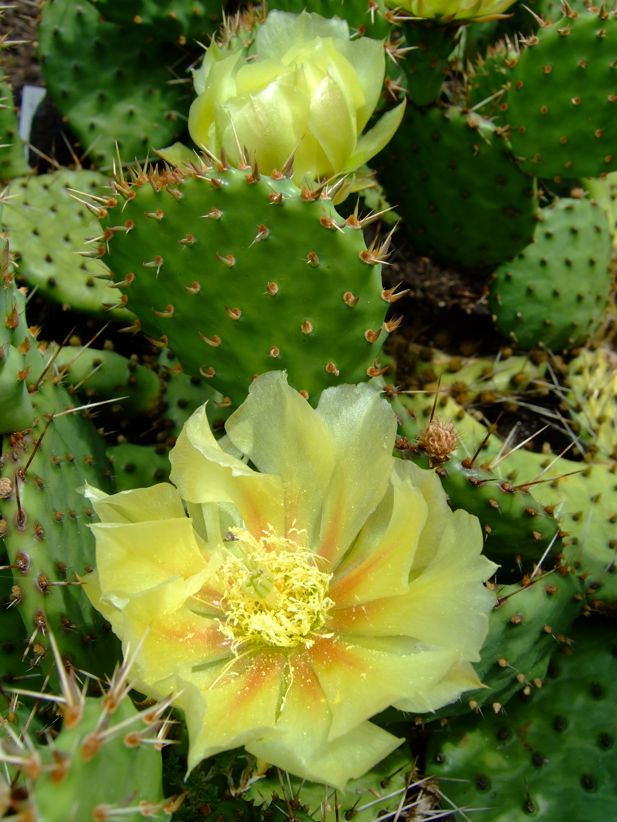 Opuntia howeyi